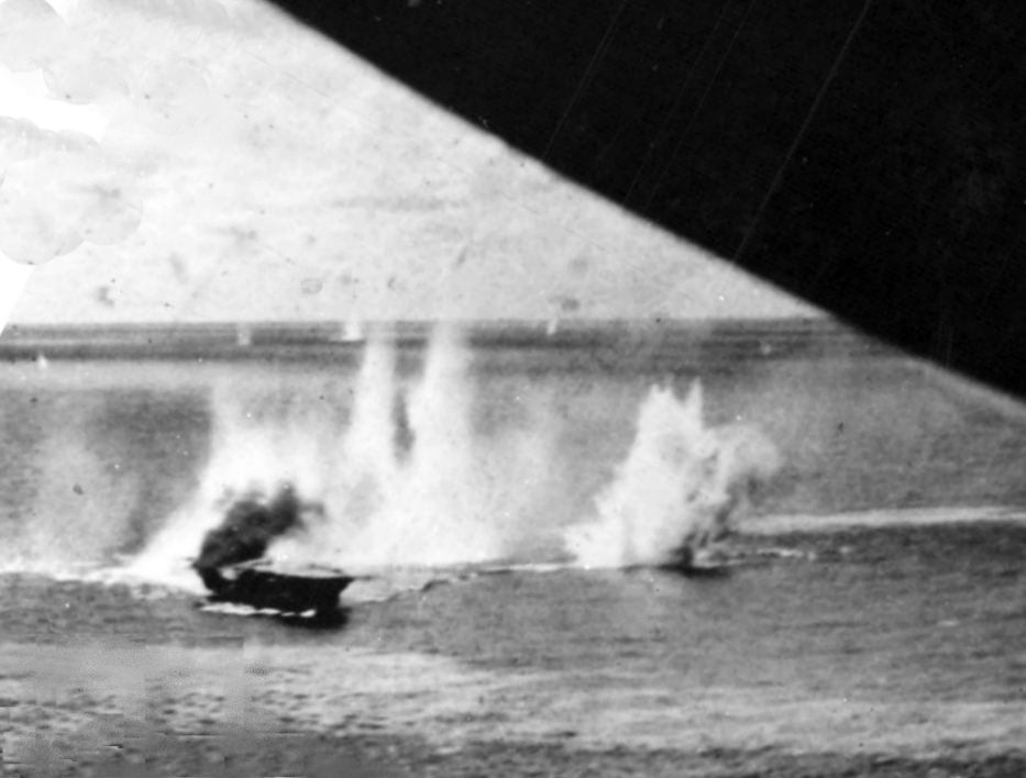 The Japanese aircraft carrier under attack during the Battle off Cape Engaño on 25 October 1944. The dark shape in the upper right is the tail plane of a U.S. Navy Grumman TBF Avenger.